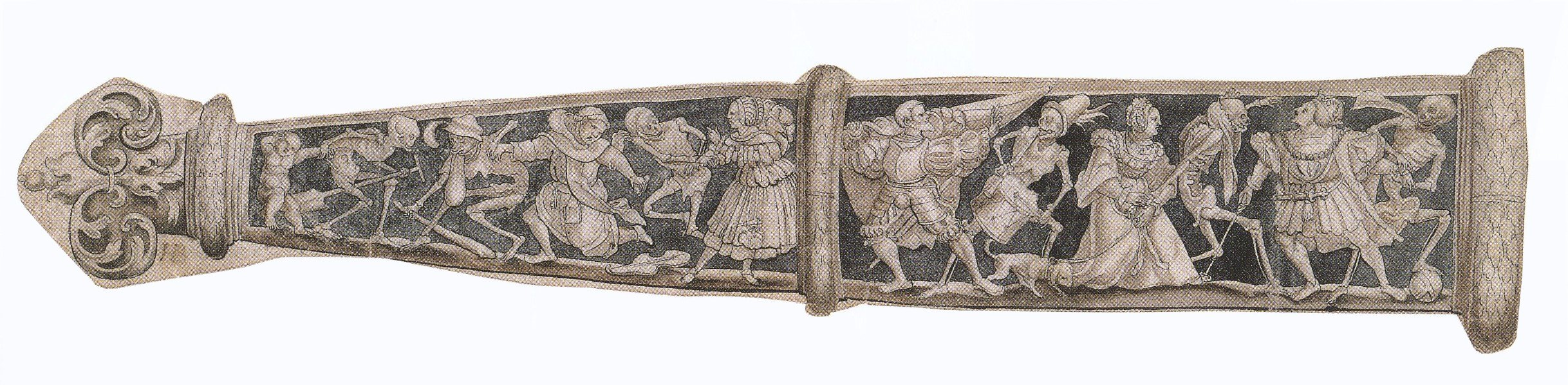 Design for a Scabbard with Dance of Death. Pen and ink and brush, brown wash, grey-primed paper, 57 × 28.1 cm (largest dimensions), Kunstmuseum Basel. All the surviving examples of Holbein's designs for scabbards on the theme of the Dance of Death are copies, perhaps a few from his own workshop but most seemingly not made until the late 16th century. The earliest surviving scabbards made to this design are from the second half of the 16th century. This type of scabbard was for the Swiss dagger, which could be worn horizontally at the hip. The motifs would stand out against a dark background of leather or velvet. According to art historian Christian Müller: "On the early copies of the designs, as in the example presented here, the picture is divided into two by a central rib. The left and right halves of the composition are thus conceived as mirror images. In most cases the depiction is of six people from different social strata, all of whom are facing death: an emperor, a female ruler, a lady of the aristocracy, a standard-bearer, a monk and a child. The figures are arranged antithetically, in pairs or in groups of three" (Müller, 314).